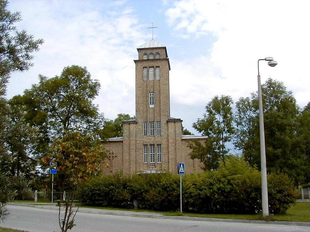 Aknīste Saint Ignatius of Loyola Roman Catholic Church